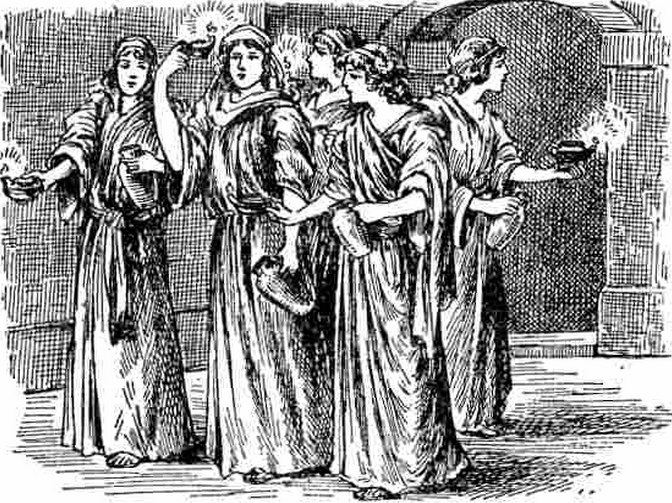 croped version of M. Bihn & J. Bealings